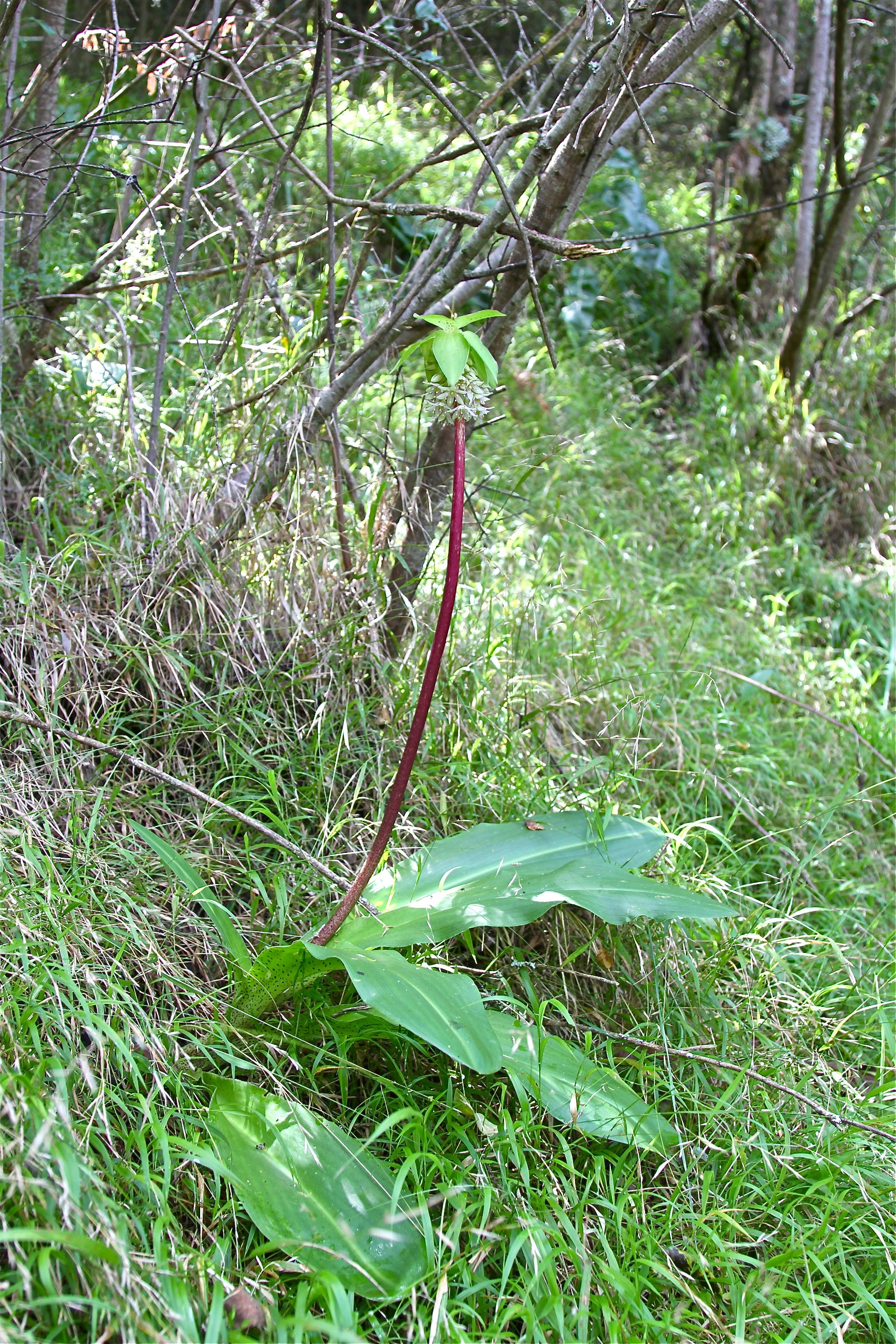 South Africa. Royal Natal National Park.